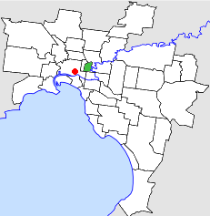 Location of the City of Collingwood within Melbourne.